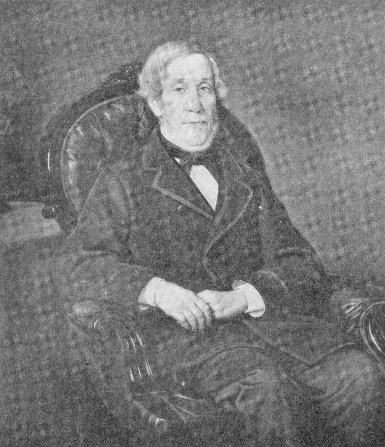 Johan Vilhelm Snellman, Finnish philosopher, statesman and writer